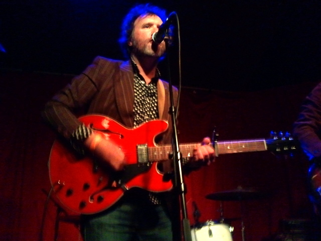 2/23/13 Brick And Mortar Music Hall, San Francisco